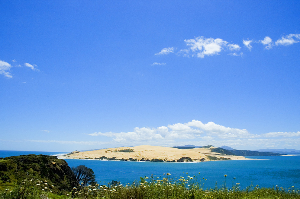 Hokianga Harbour (13 January 2005.) Photograph by James Shook, who retains copyright and releases the image under the license shown below.